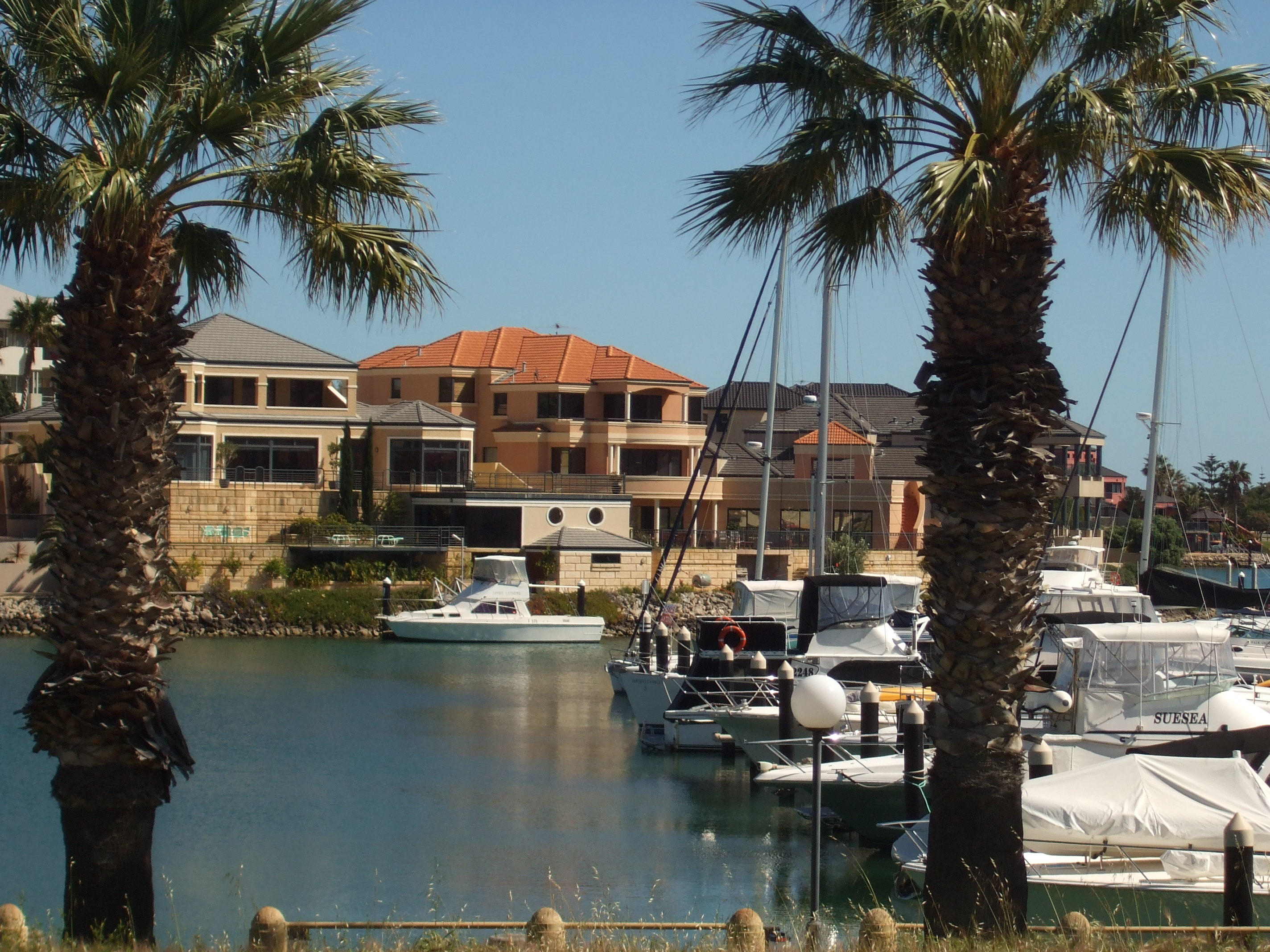 A view of the Mindarie Marina on Boston Quays.